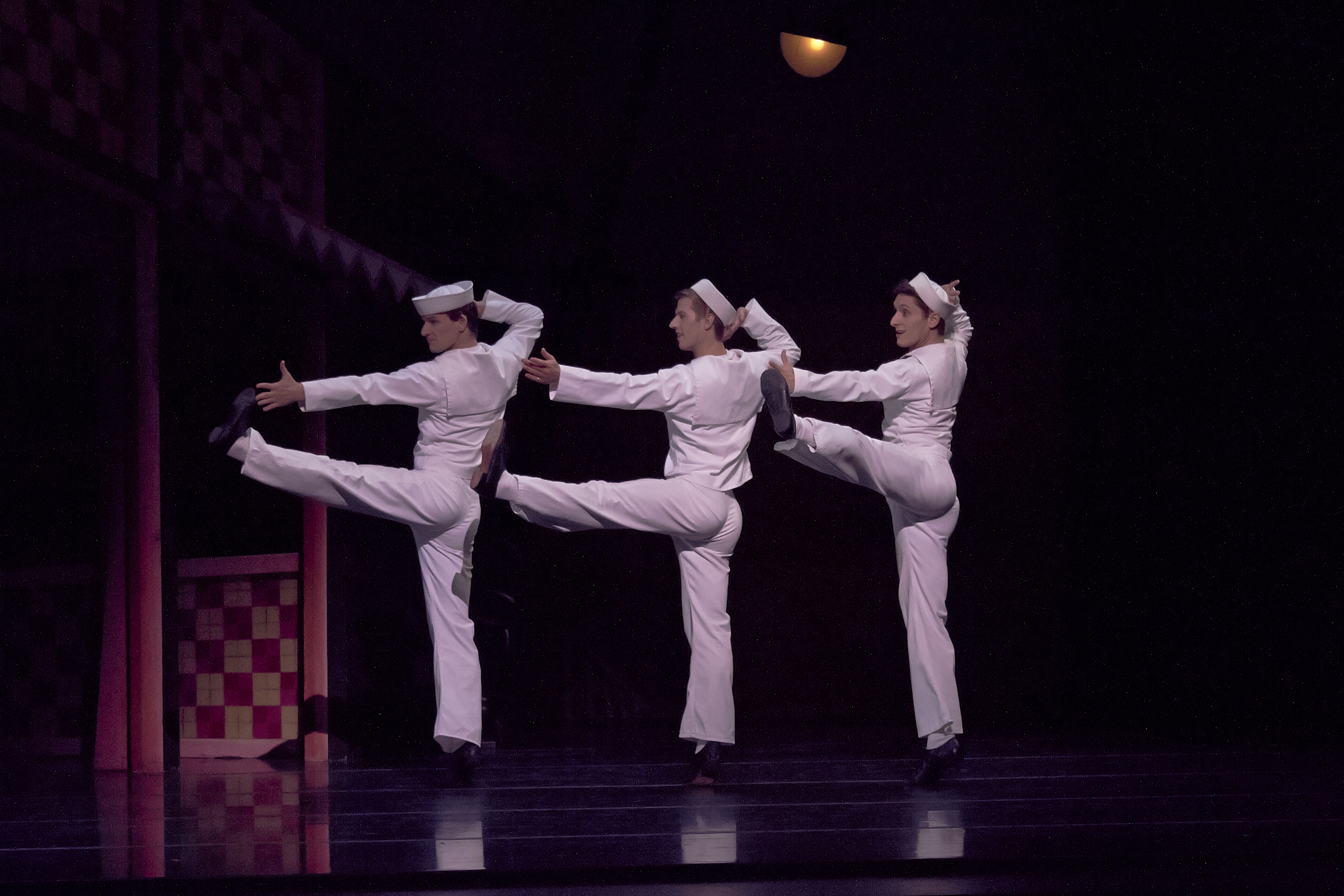 'Fancy Free' by Jerome Robbins KCB Dancers Photographer Steve Wilson